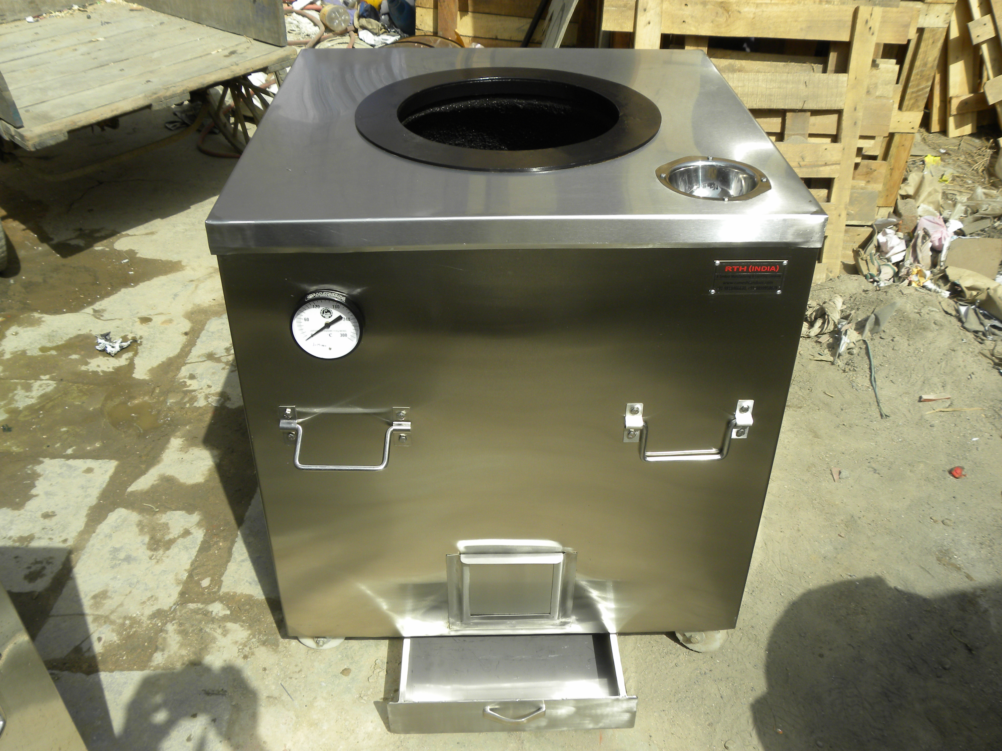 Charcoal Fired S.Steel Body Tandoor, with ash tray & temp. meter